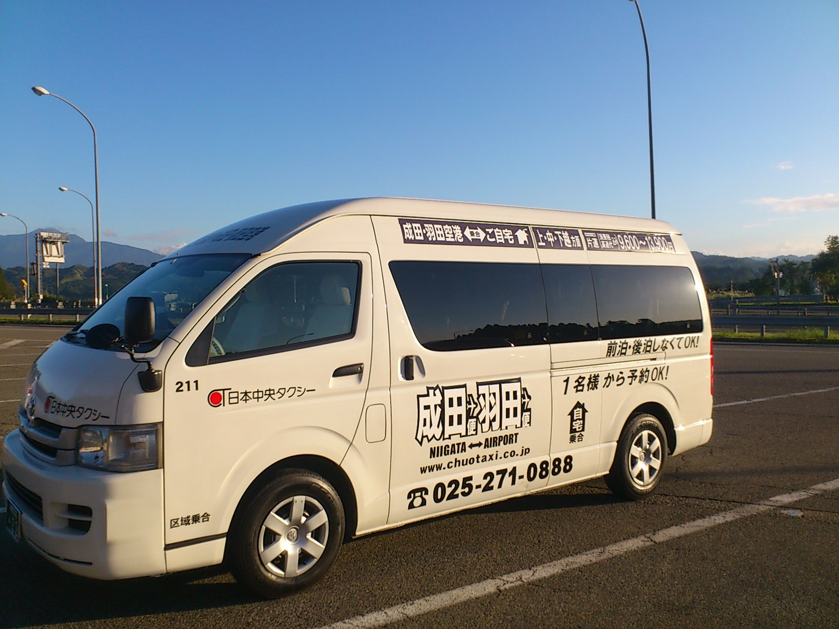 Chuo Taxi (Toyota HiAce).